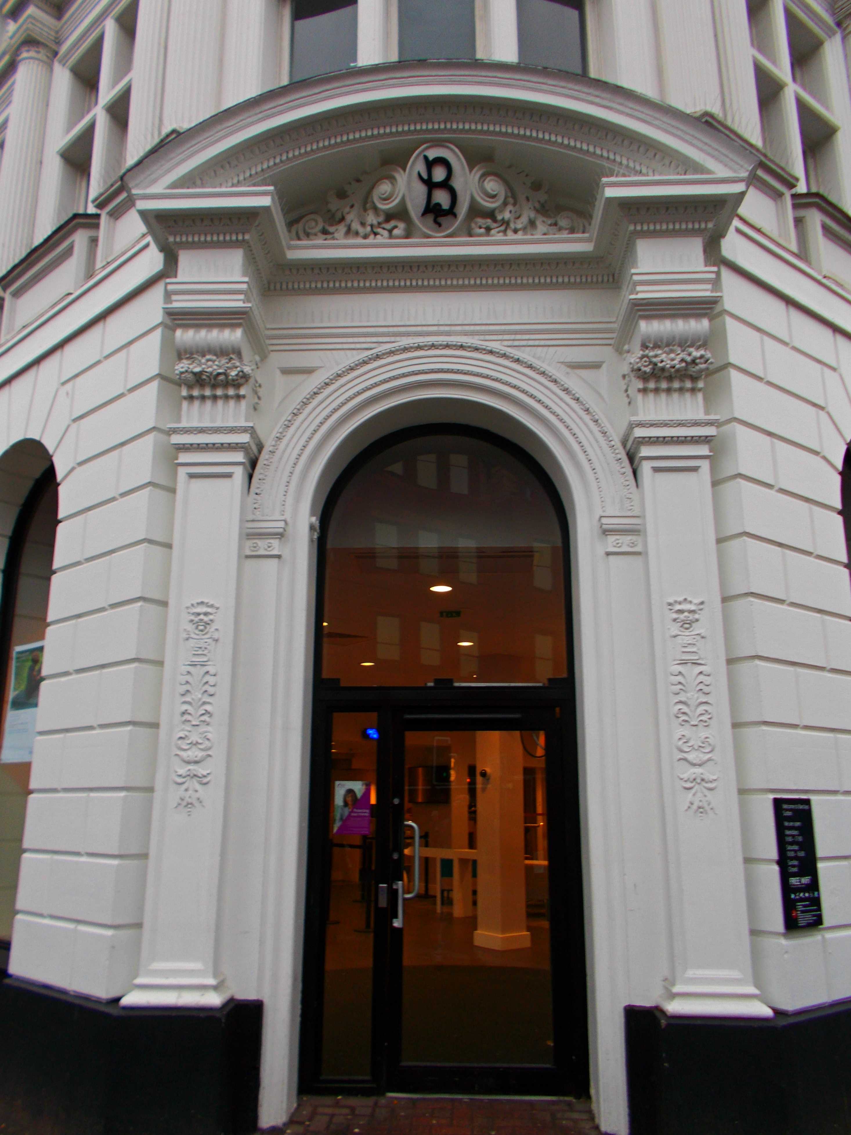 Sutton, Surrey, Greater London